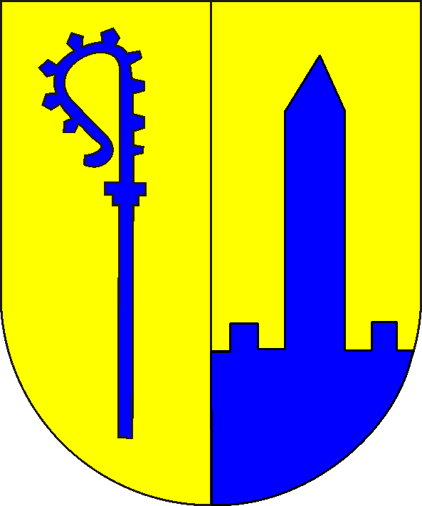 coat of arms of the bishopric of Ratzeburg